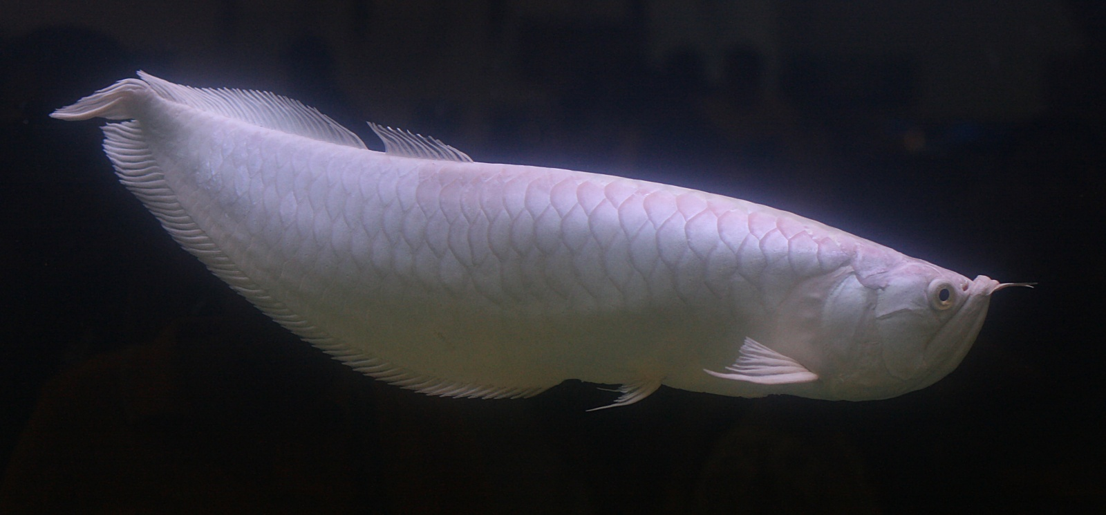 A silver arowana Osteoglossum bicirrhosum variant known as "Snow arowana" or "Platinum arowana" caused by leusistic (little pigmentation). From The 6th "Pramong Nomjai Thaituala" Thailand Tropical Fish Competition 2007.